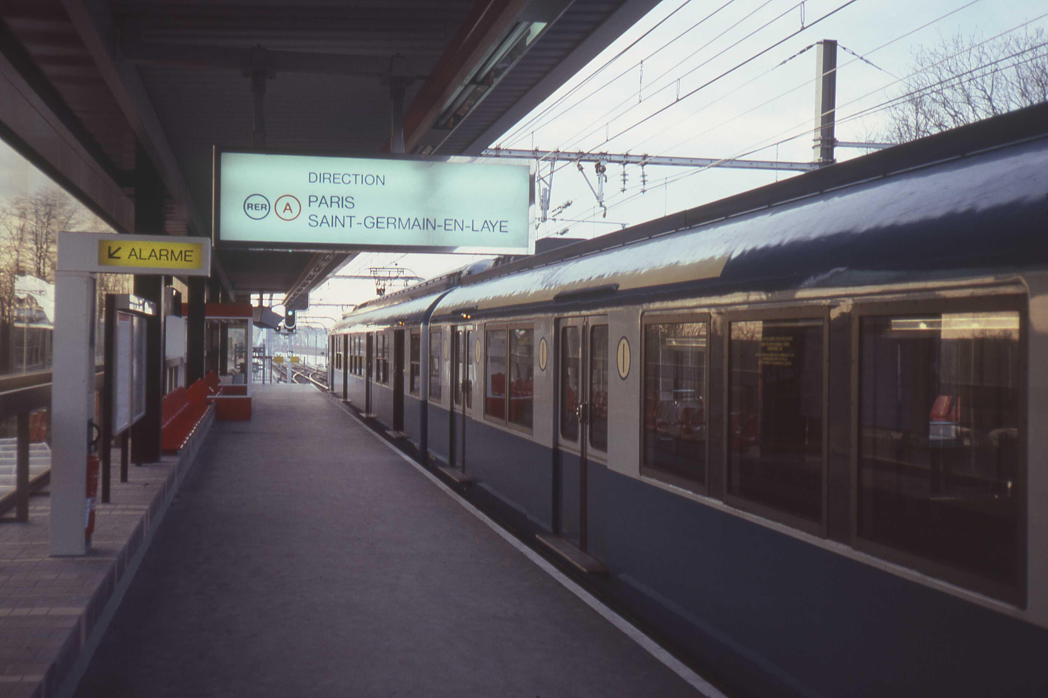 Old style and colours of a RATP RER trainset MS 61 at Torcy station in 1982. There is still a first class section.